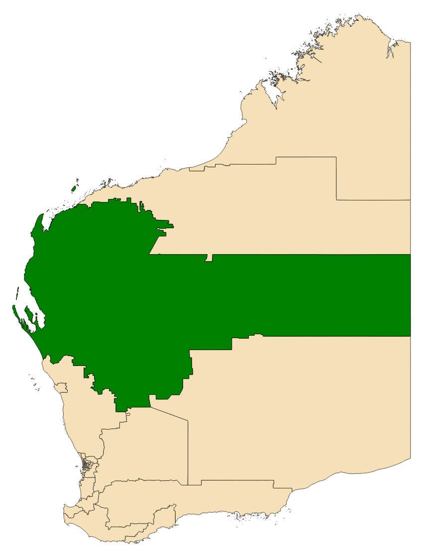 Location of the electoral district of North West Central in Western Australia as of the 2017 WA state election.